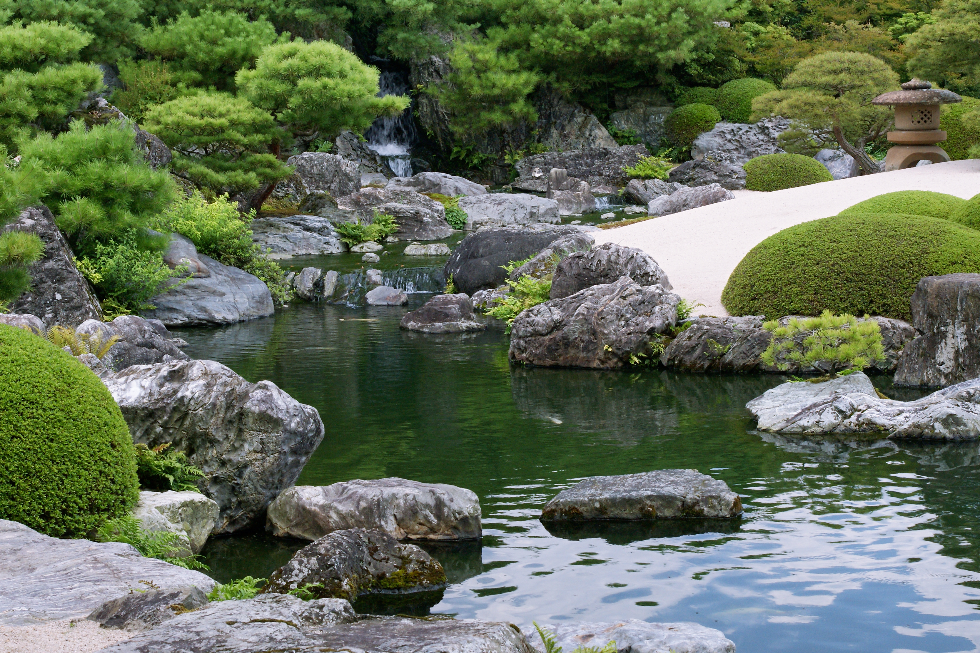 Adachi Museum of Art in Yasugi, Shimane prefecture, Japan